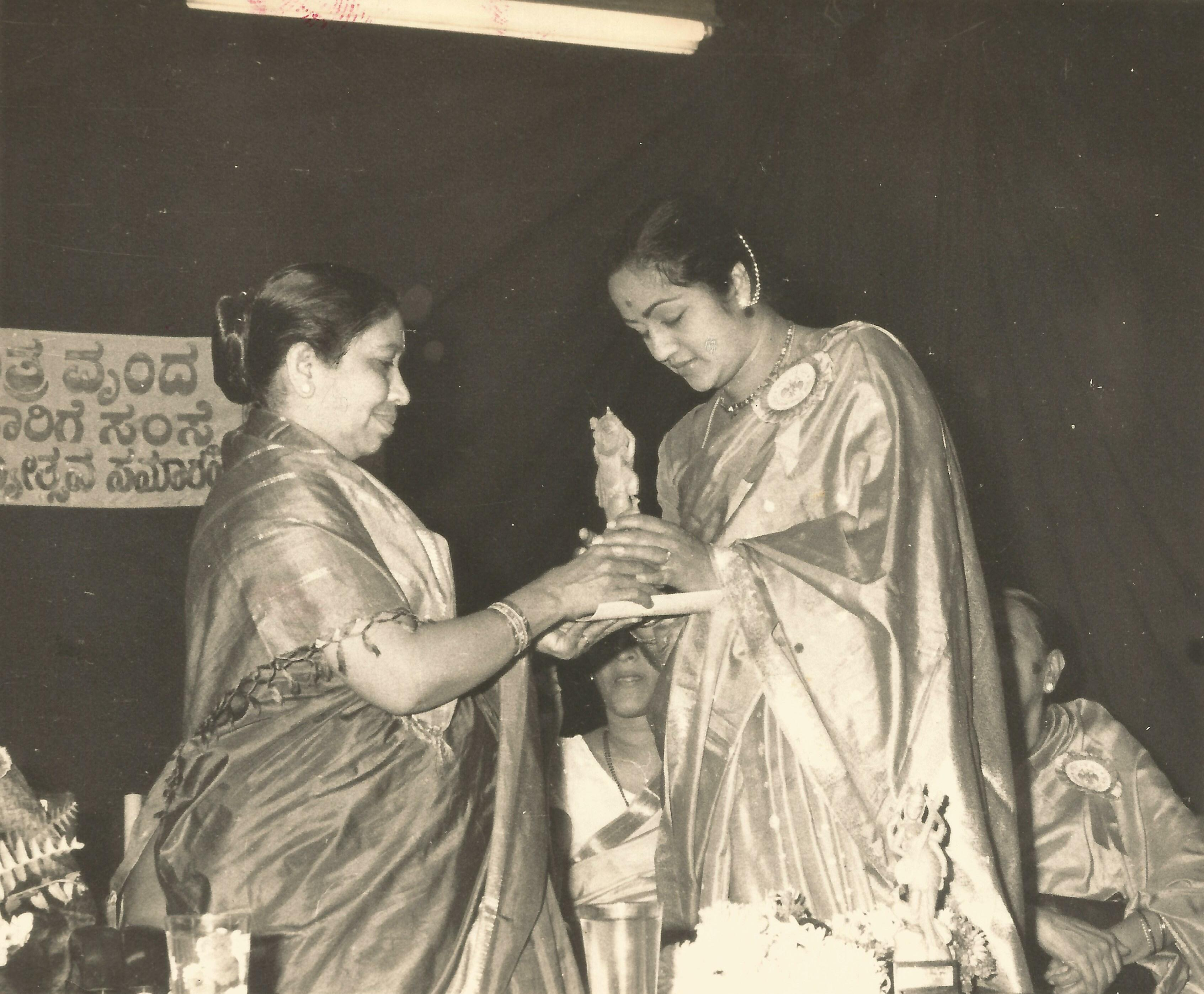 Receiving an award